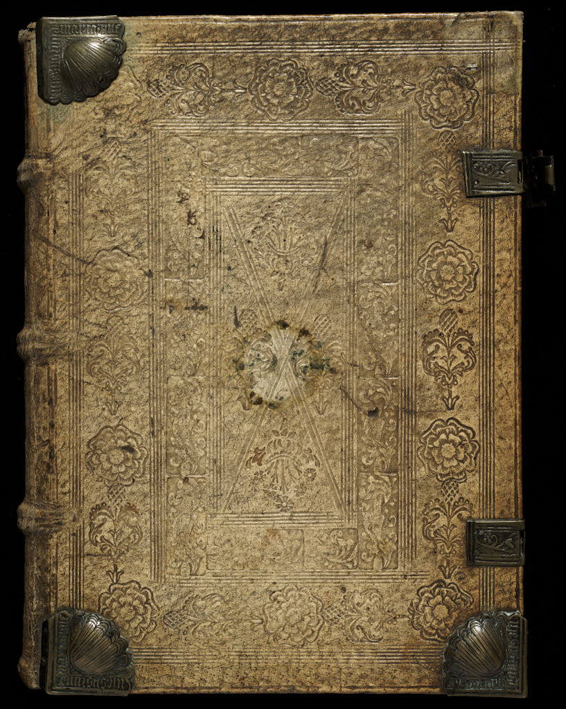 Upper cover of Bartholomaeus Anglicus, De proprietatibus rerum (Strassburg: [Printer of the 1483 Jordanus de Quedlinburg (Georg Husner)], 11 Aug. 1491). qRSM Story BART 1491.